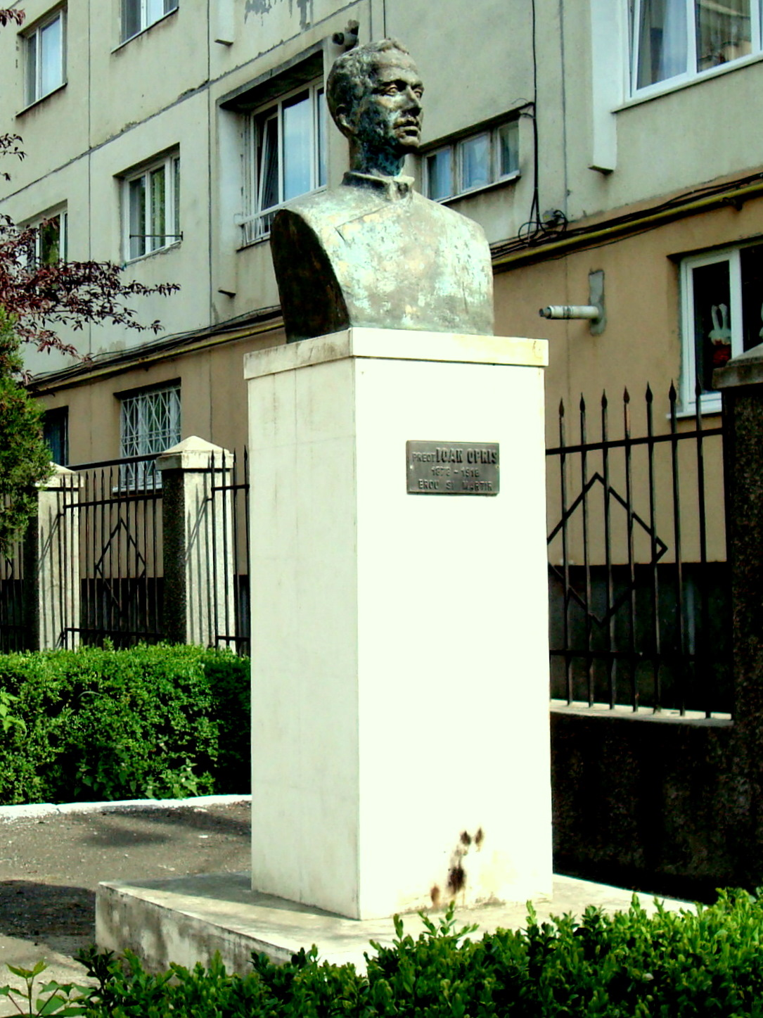 Bust of Ioan Opris by Emilian Savinescu /2004 works/ (1 I.Opris Street) source: wikipedia